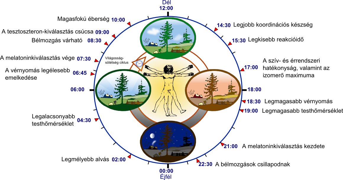 Overview of biological circadian clock in humans, Hungarian version - PNG rendering